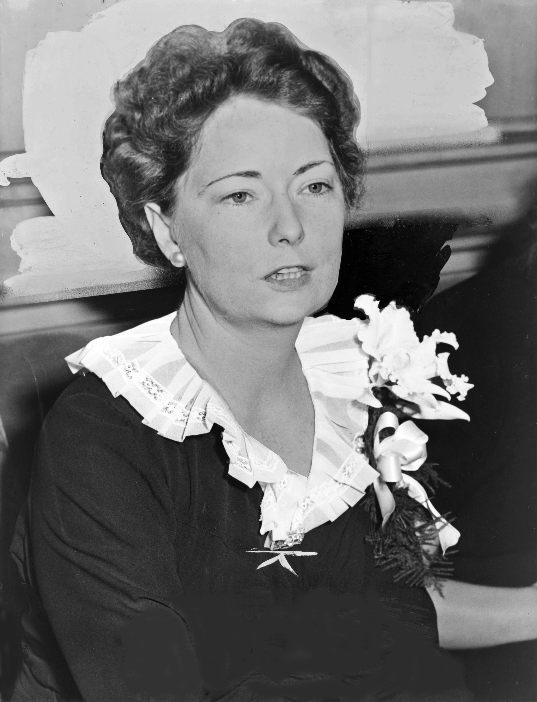 Margaret Mitchell all set to launch cruiser after long training as Red Cross launchee / World Telegram & Sun photo by Al Aumuller. This photograph has markings and manipulations to allow a section to be used independently as a head-and-neckline shot.